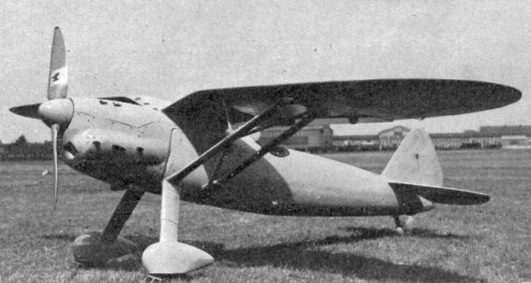 Henschel Hs 121 photo from L'Aerophile September 1939